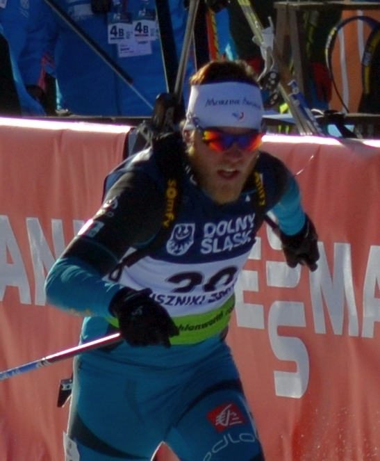 Open European Championships Biathlon 2017, Sprint Men's race, held on January 27th.